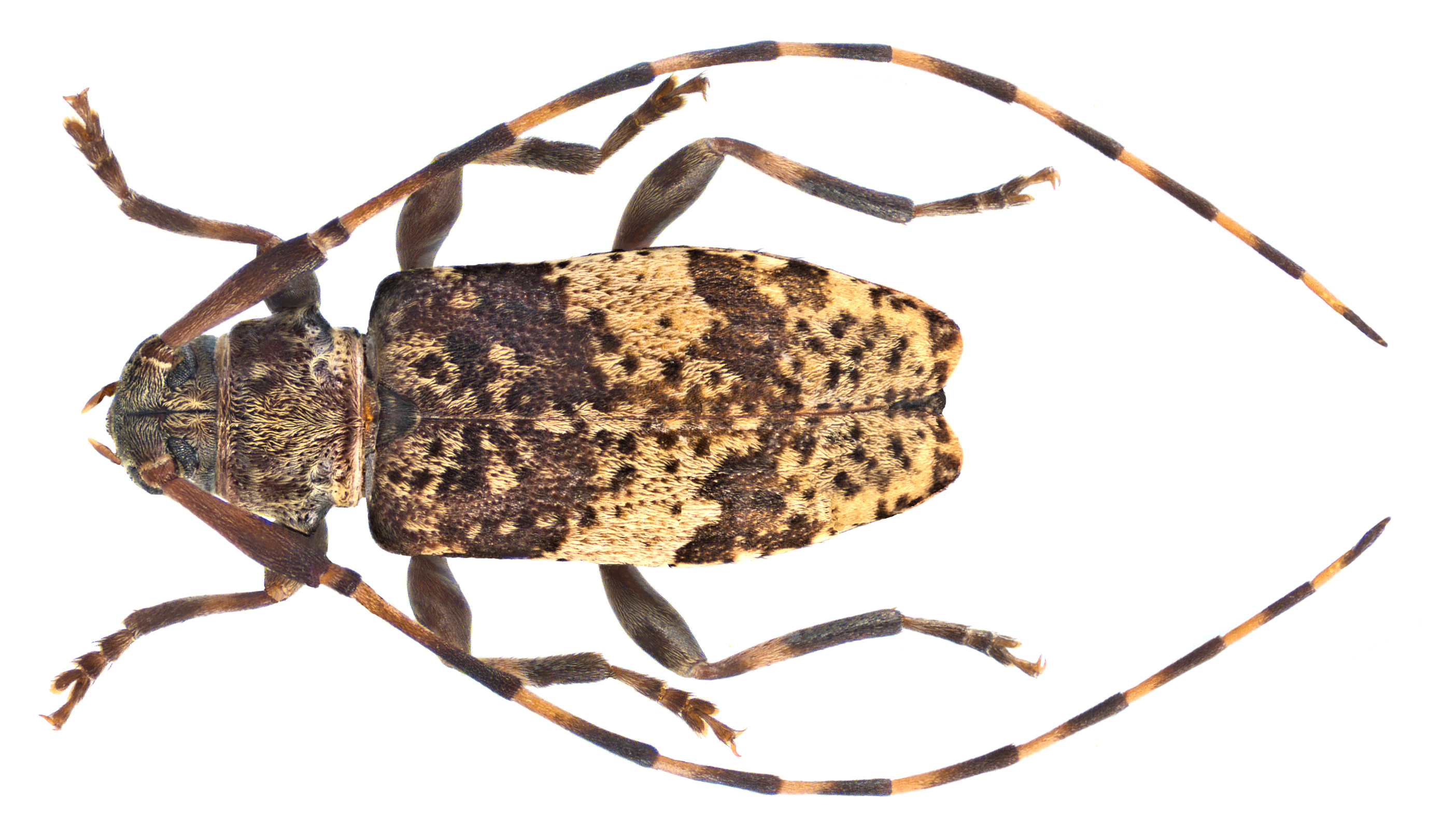 Family: Cerambycidae Size: 6-10 mm Origin: Europe Ecology: development polyphagous in hardwood Location: Austria, Burgenland, Purbach-Rosenberg leg. J.Scheuern, 26.VI.1991; det. K.Hadulla, 2010; Coll. J.Schoenfeld Photo: U.Schmidt, 2015